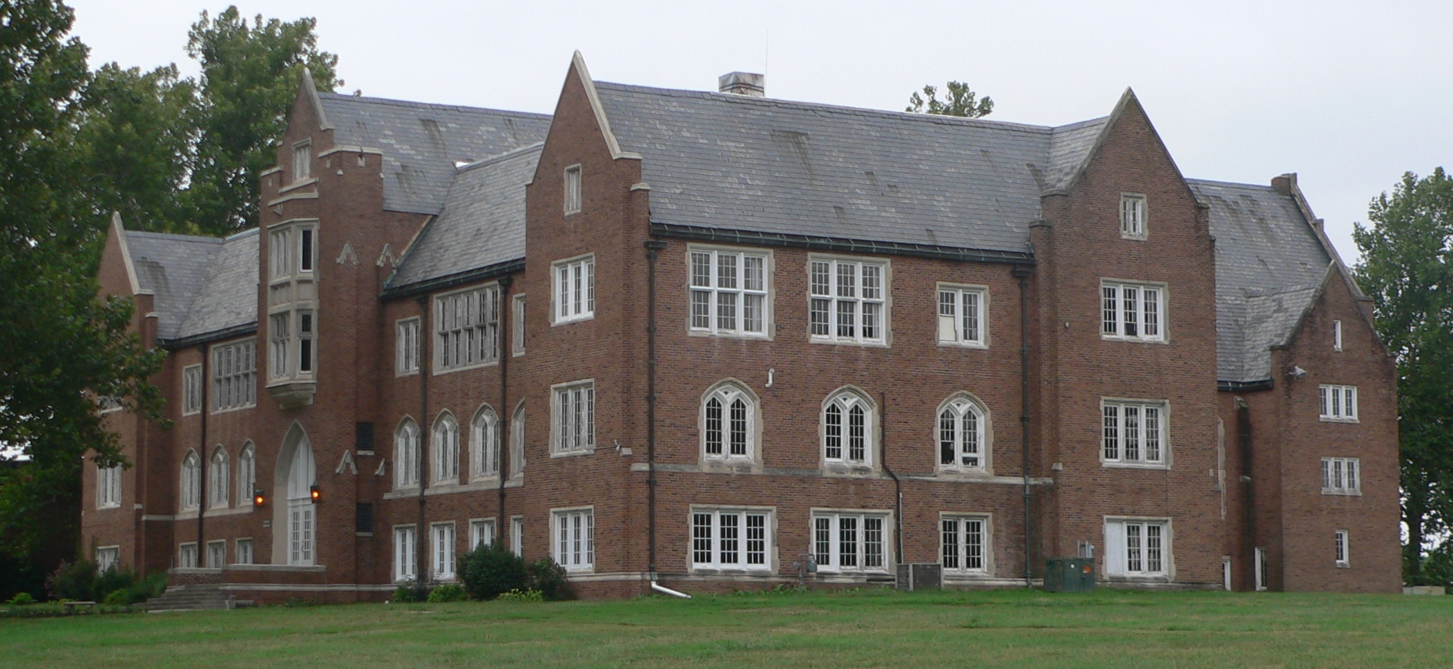 Rankin Hall, on Tarkio College campus in Tarkio, Missouri; seen from the northeast.